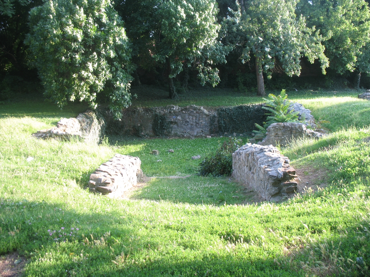 Remains of a building (stable) in Kruševac fortress in Kruševac, Serbia.